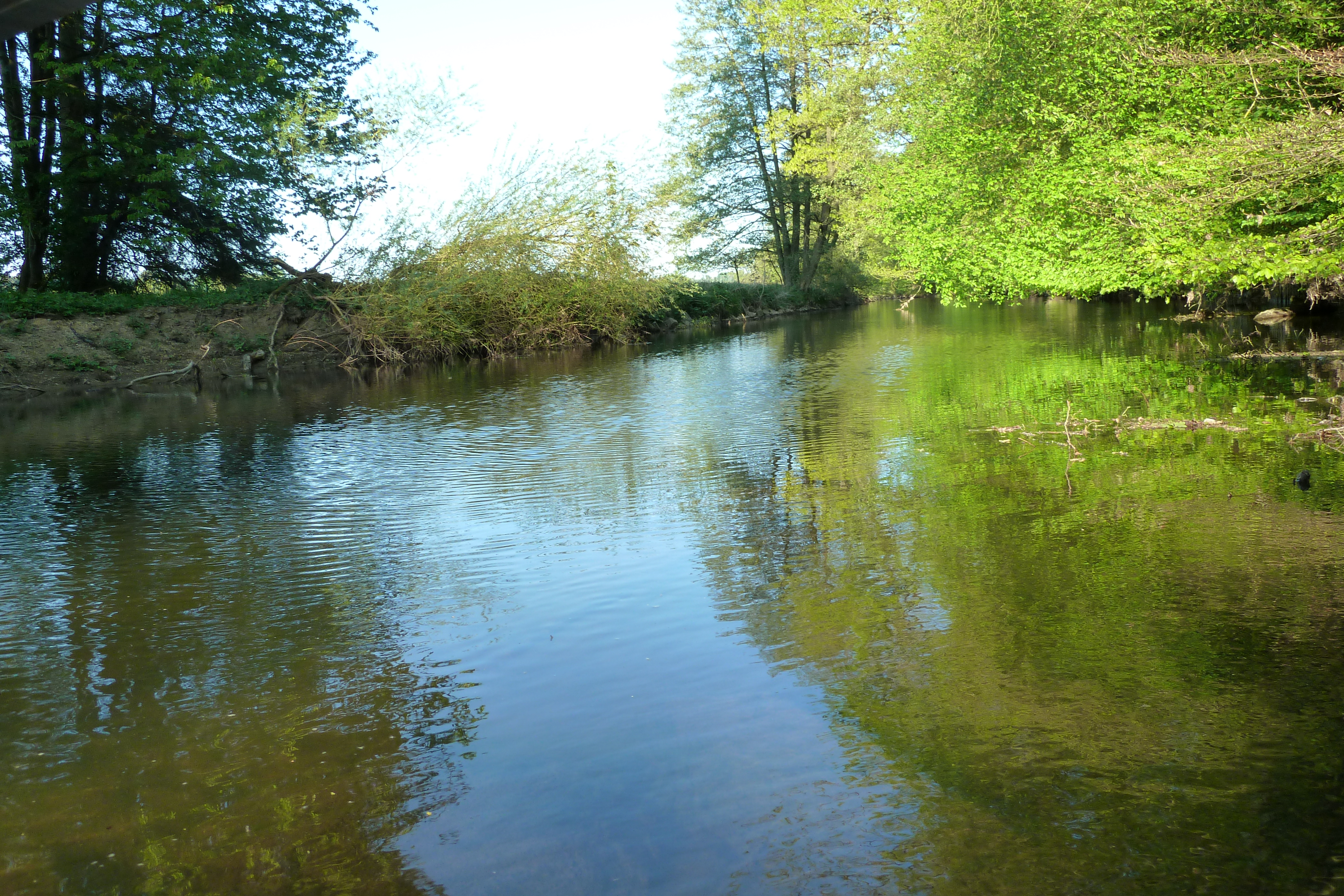 The Möhne near Warstein-Mülheim, Möhnetal nature reserve.